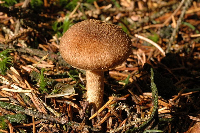 Probably Inocybe flocculosa from Commanster, Belgium. The determination of the species shown in this picture has been verified.